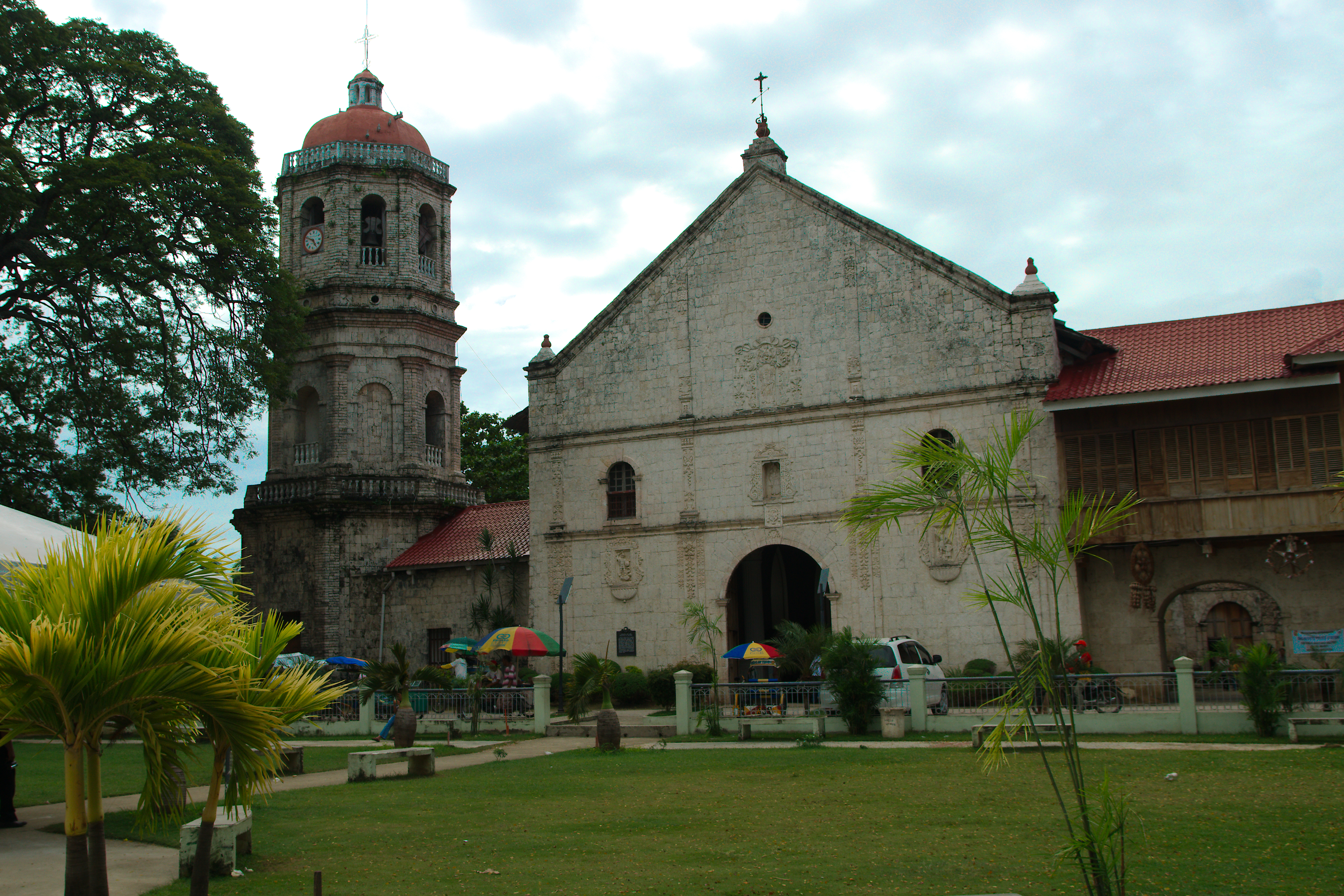 Dalaguete, Cebu